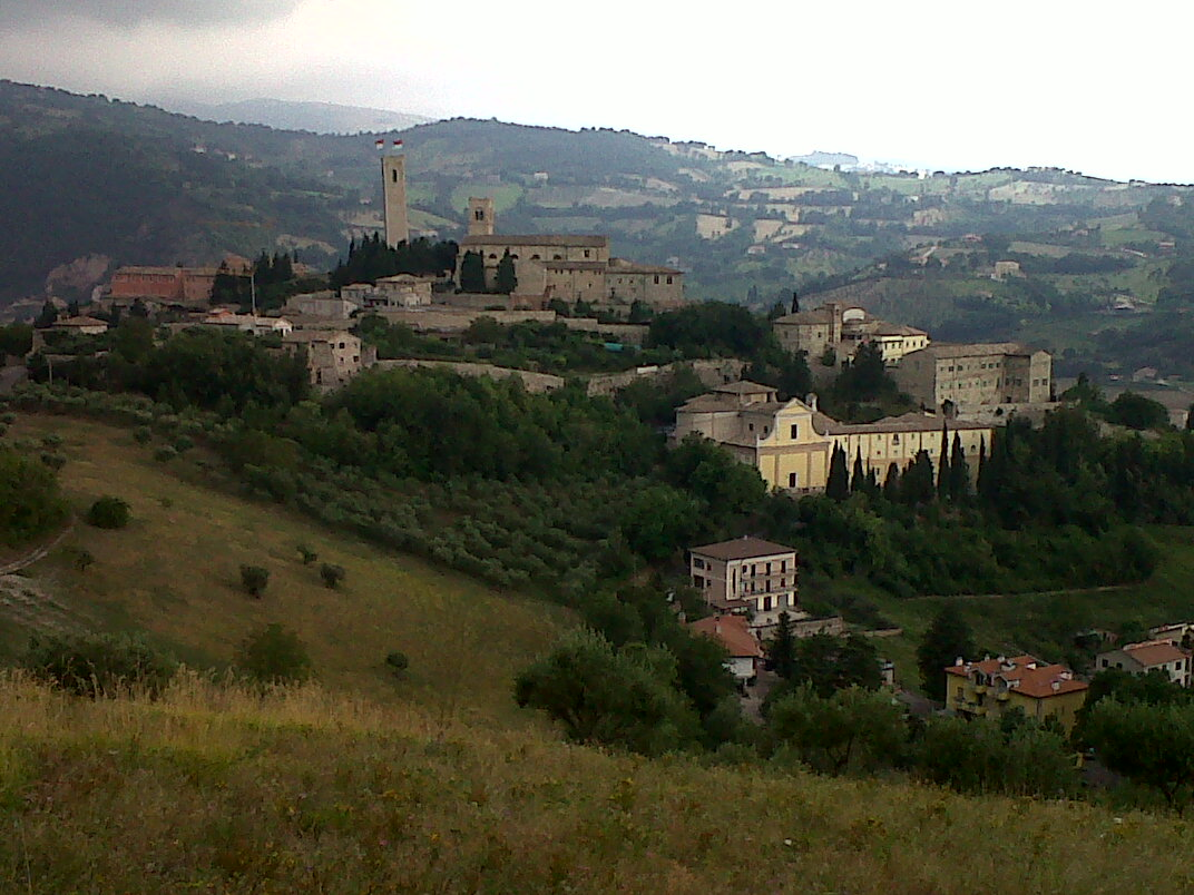 Torre degli Smeducci (San Severino Marche)